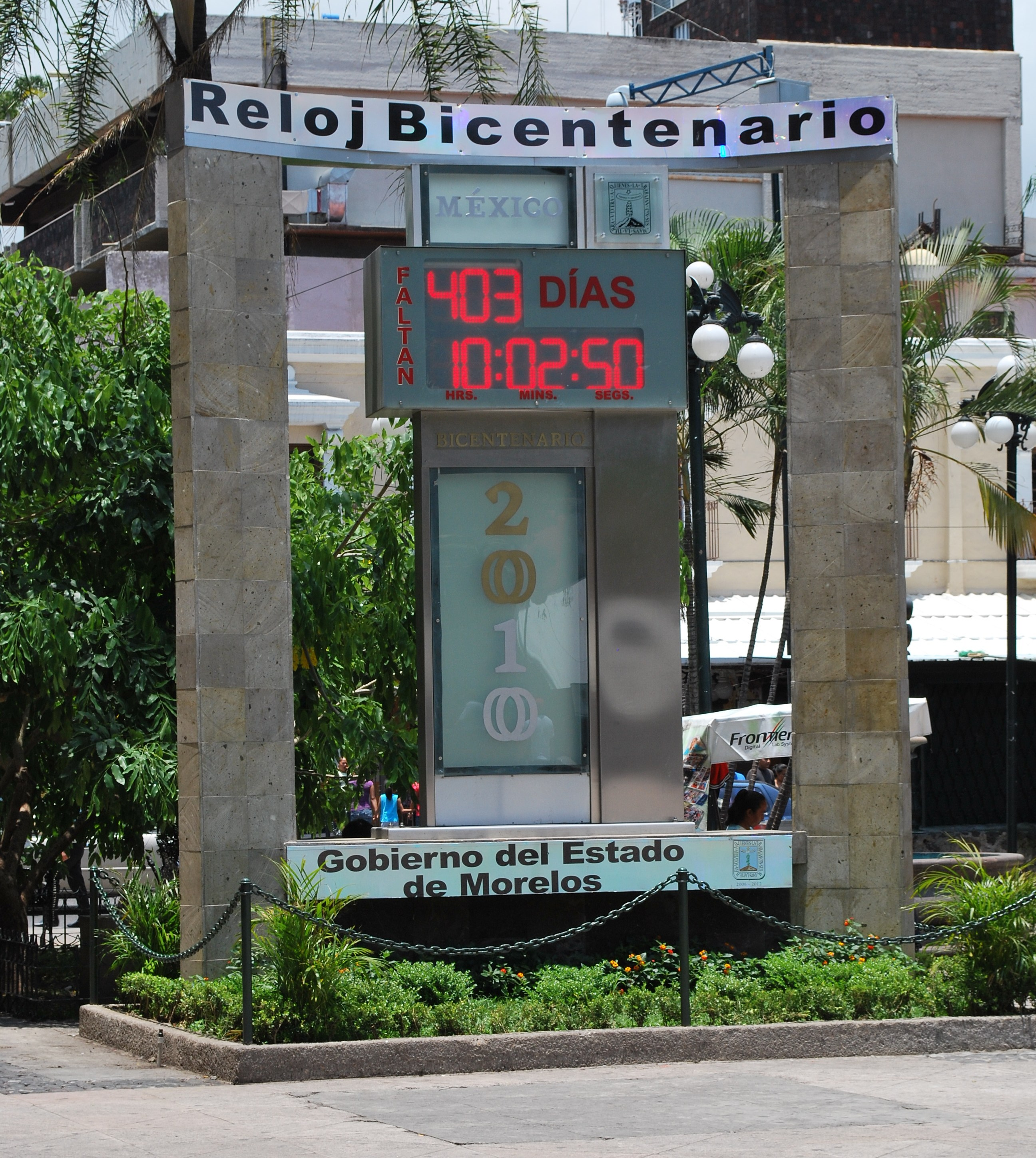 Clock ticking down to Mexico's Bicentennial celebrations in Parque Morelos in Cuernavaca, Morelos, Mexico